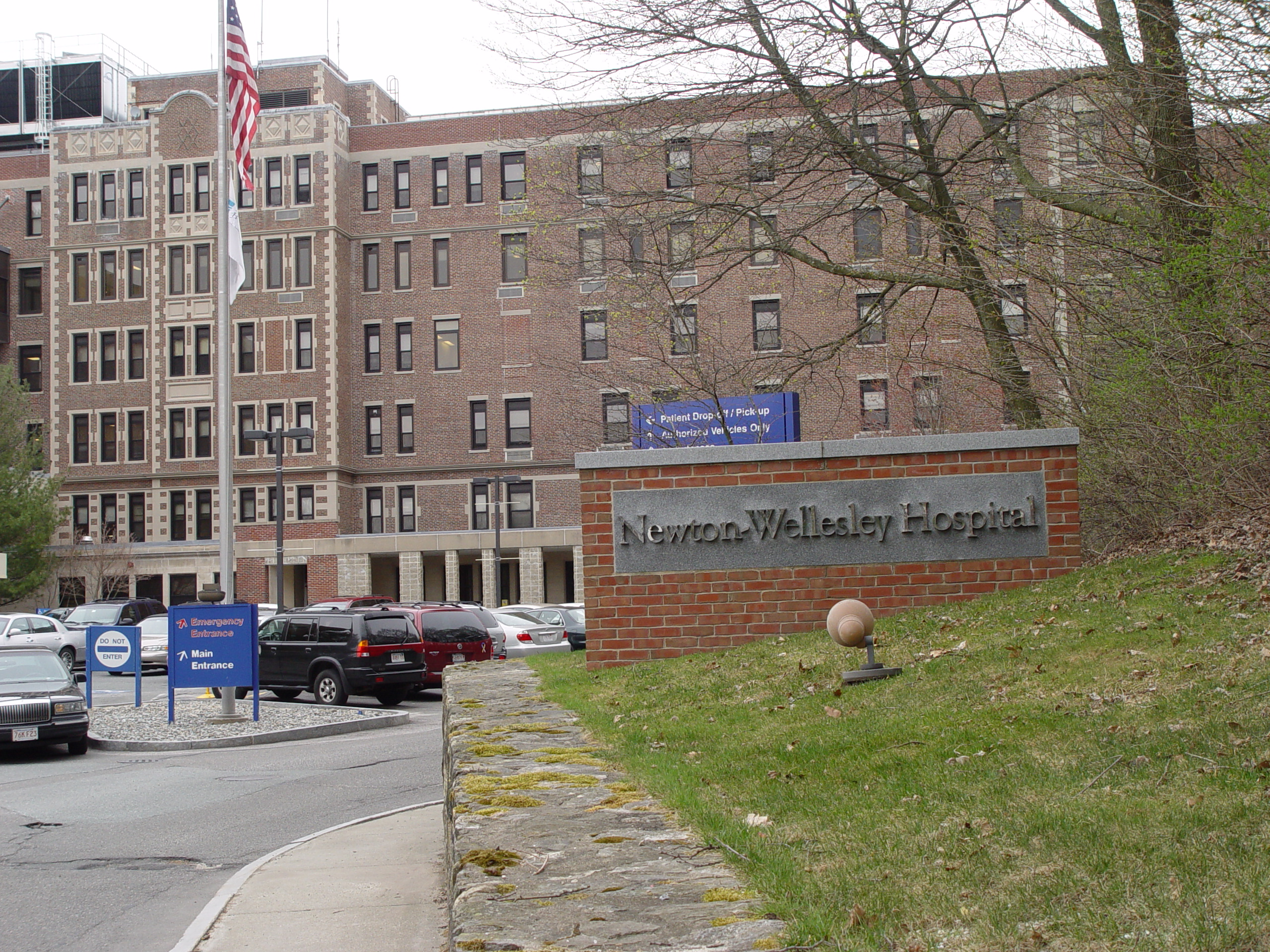 This is a shot of Newton-Wellesley Hospital before construction began for the Vernon Cancer Center.